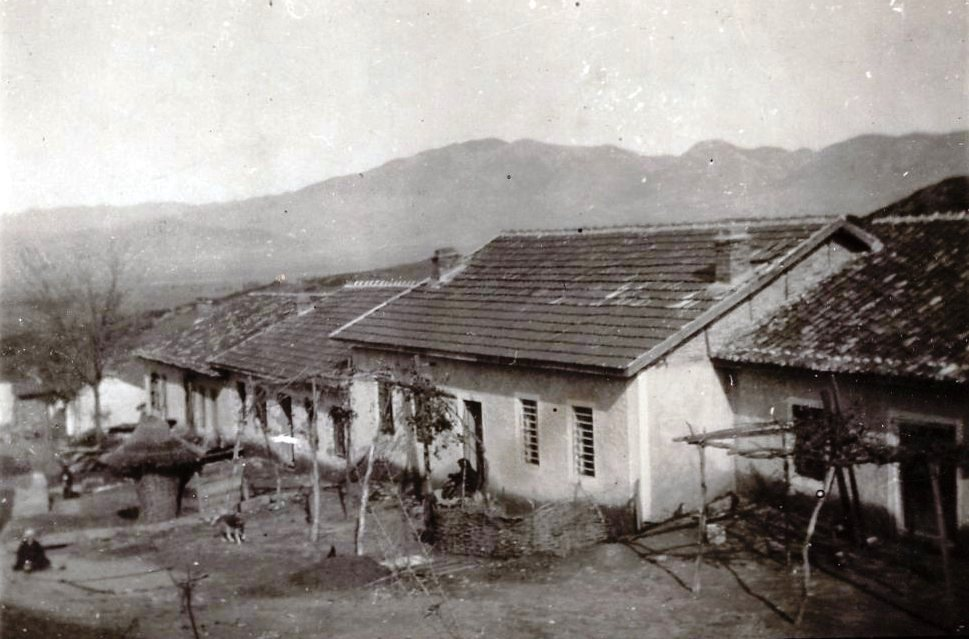 Village :Marvinci, 1931 This media file is produced by Wikipedian in Residence in Category:Wikipedian in Residence at DARM in 2016.